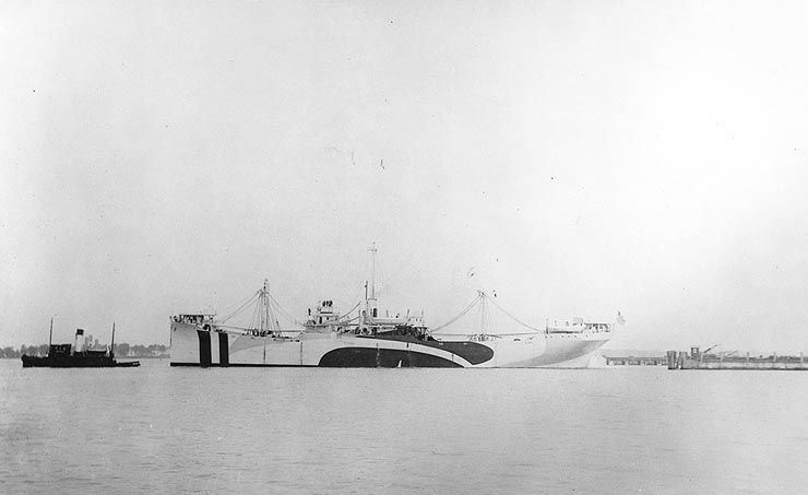 The commercial cargo ship SS Berwyn photographed off the Bethlehem Shipbuilding Corporation's Bethlehem Sparrows Point Shipyard, Maryland, at the time of her completion. She is painted in dazzle camouflage. She later served as the US Navy cargo ship USS Berwyn (ID-3565).